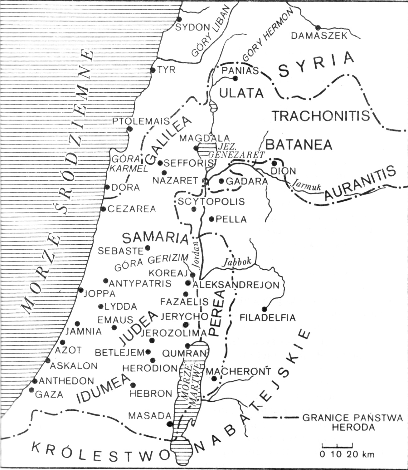 Map of Herod's Kingdom / Ancient Israel in Jesus times. I re-made picture in Inkscape. Unfortunetly insriptions are polish.